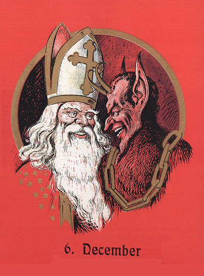 Nikolaus and Krampus in Austria